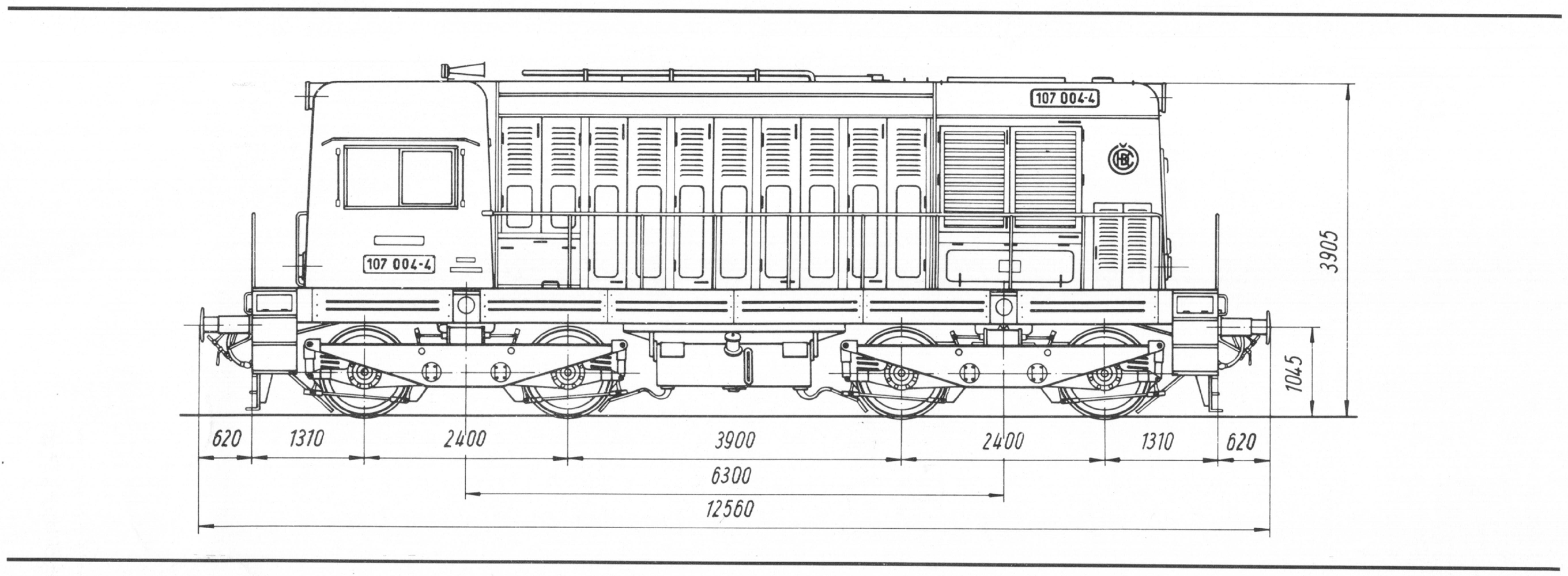 Sectional drawing of the Diesel locomotive number 107 004-4 of the Deutsche Reichsbahn